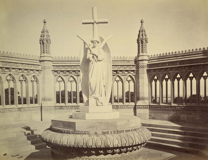 Photograph of the Marble statue by Marochetti over the Memorial Well. Many of British women and children were massacred in Cawanpore later Kanpur during the Indian rebellion of 1857. The Well with Marochetti's Angel, surrounded by Henry Yule's Gothic screen, was originally situated in the Municipal Gardens covering the Bibighar Well. After the Independence of India the memorial was relocated to the Memorial Church, Kanpur. Due to the tragic events the site was known as popularly known as the Massacre Ghat among Britishers. Medium: Albumen silver print